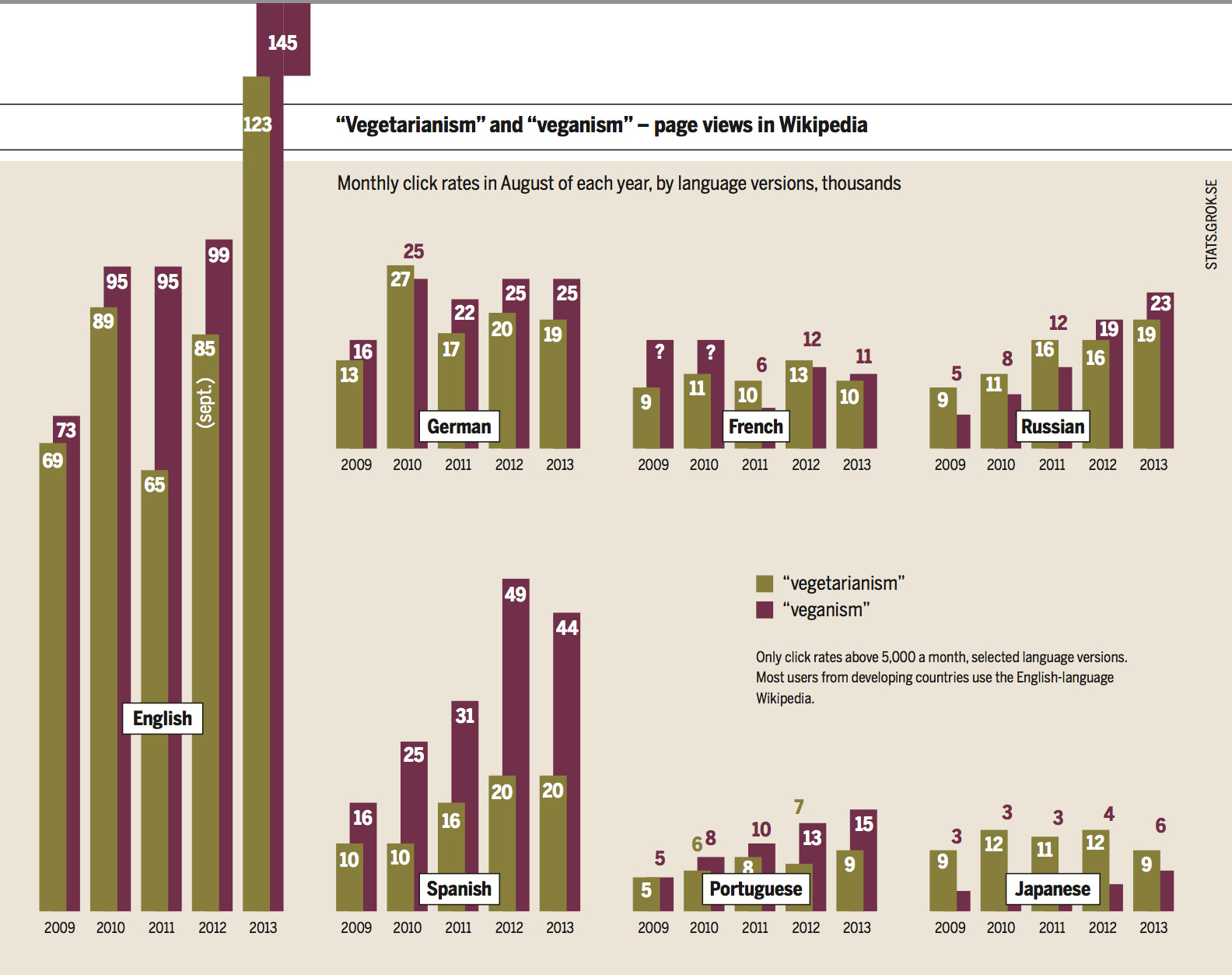 Page views on the Wikipedia of articles about veganism and vegetarianism, 2009–2013